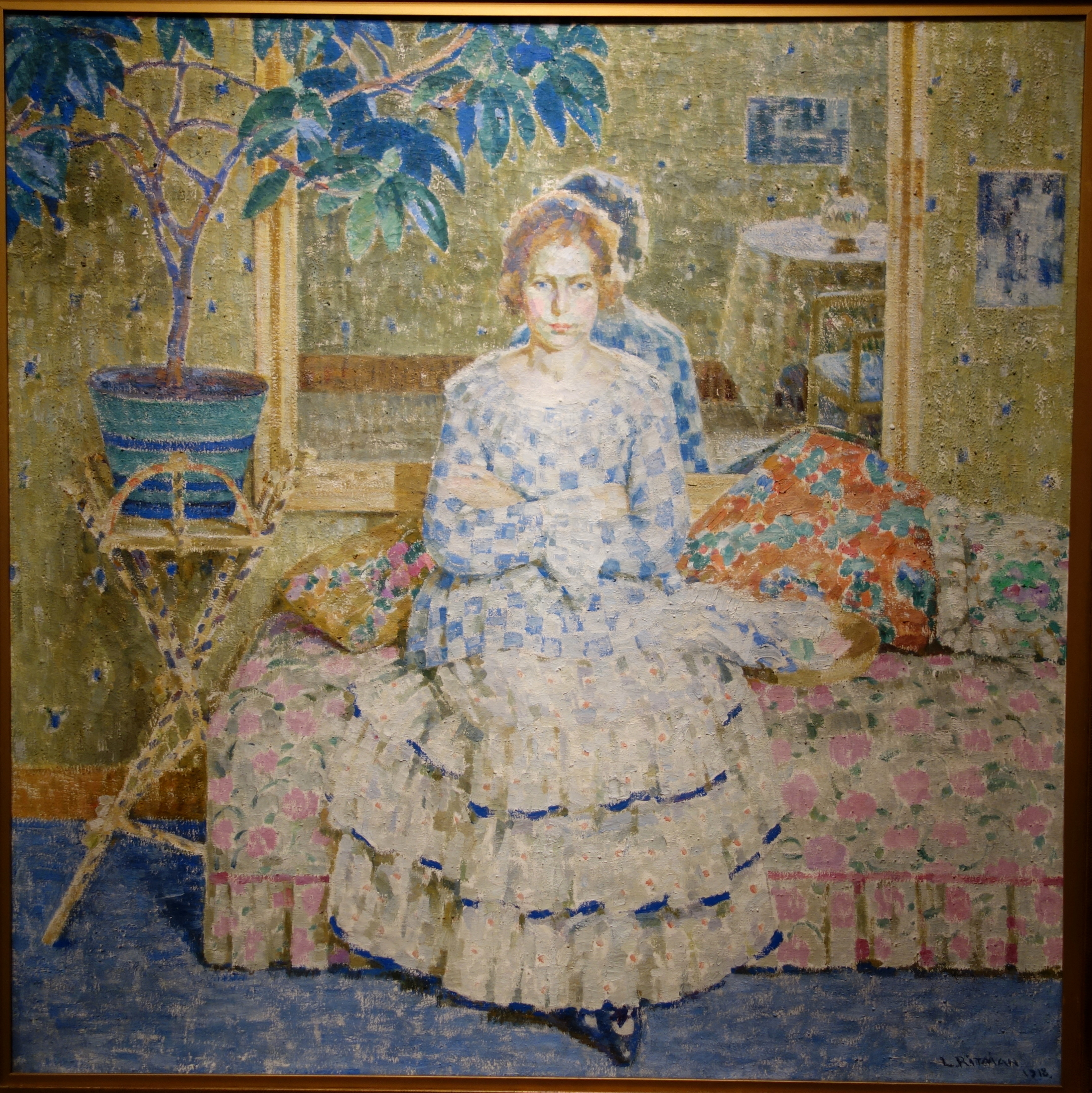 Exhibit in the New Britain Museum of American Art, New Britain, Connecticut, USA. This artwork is in the public domain because it was first published in the United States before 1923. The museum permitted photographs of this exhibit without restriction.